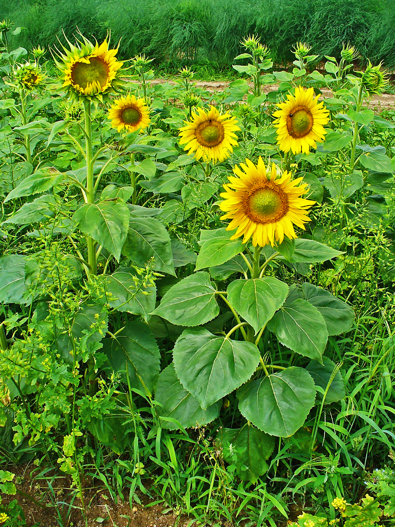 Helianthus annuus, Asteraceae, Sonnenblume, Habitus; Stutensee, Germany. The ripe fruits are used in homeopathy as remedy: Helianthus annuus (Helia.)